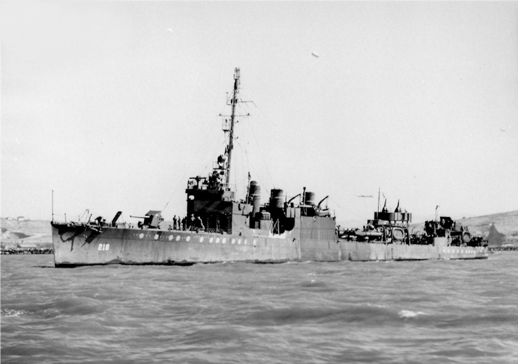 USS Parrott (DD-218) departing Mare Island on 23 August 1942. She was in overhaul at the yard from 30 July to 31 August 1942.